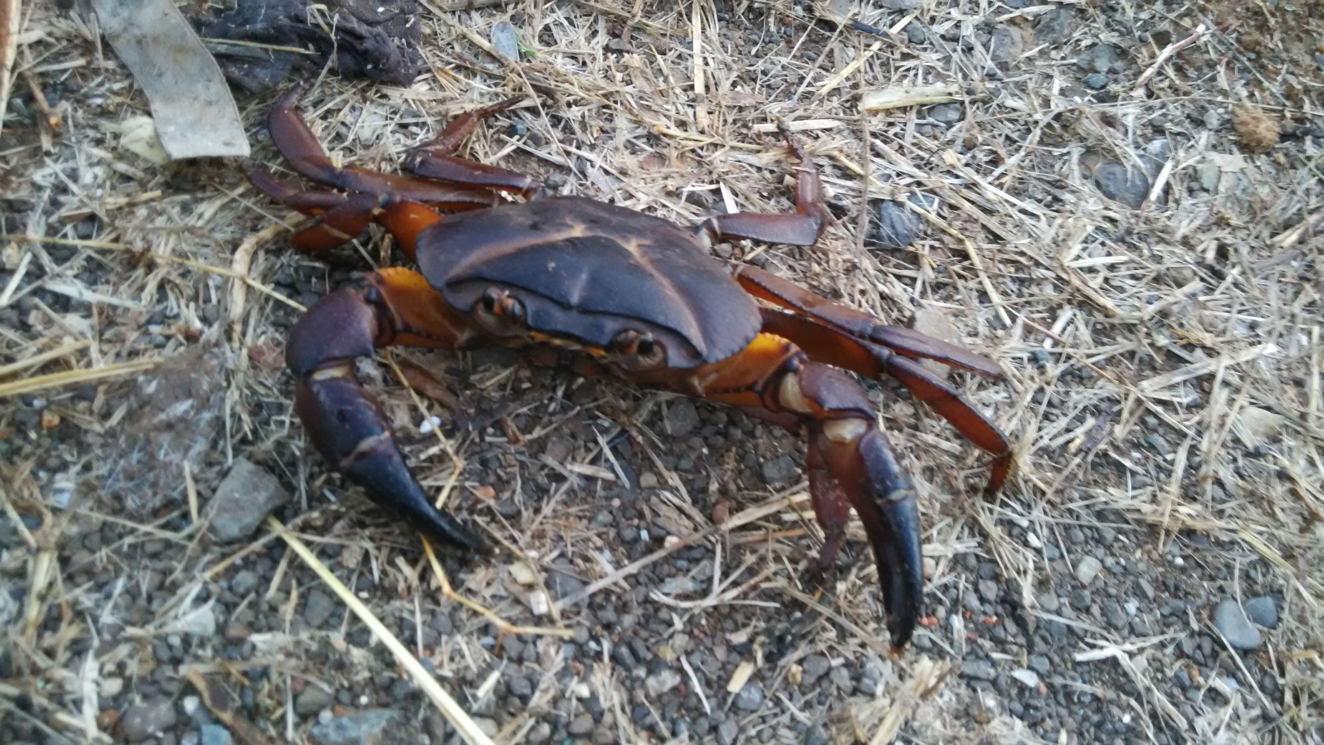 crab in fiels